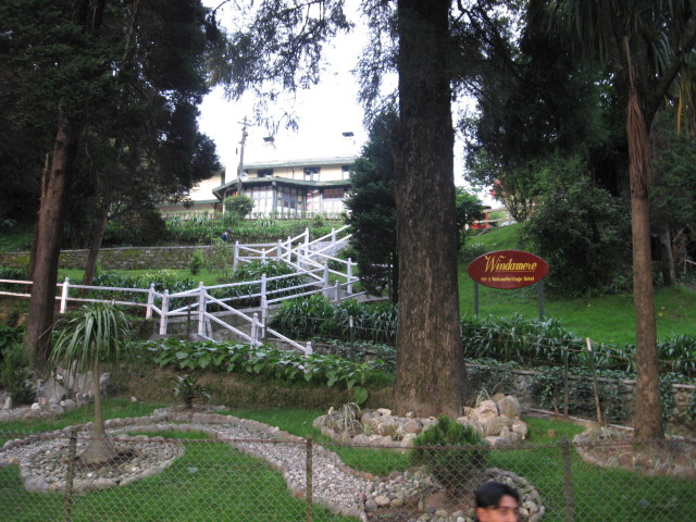 Own photograph